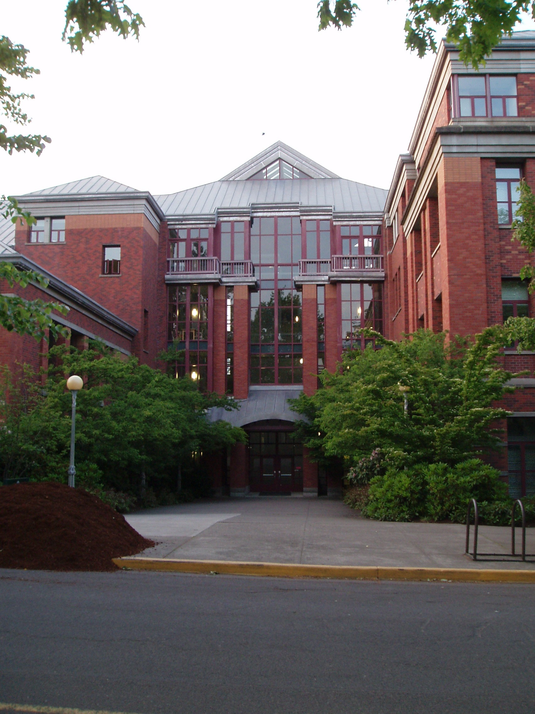 Front of Willamette Hall (entrance to the Paul Olum Atrium), on the University of Oregon campus in Eugene, Oregon.